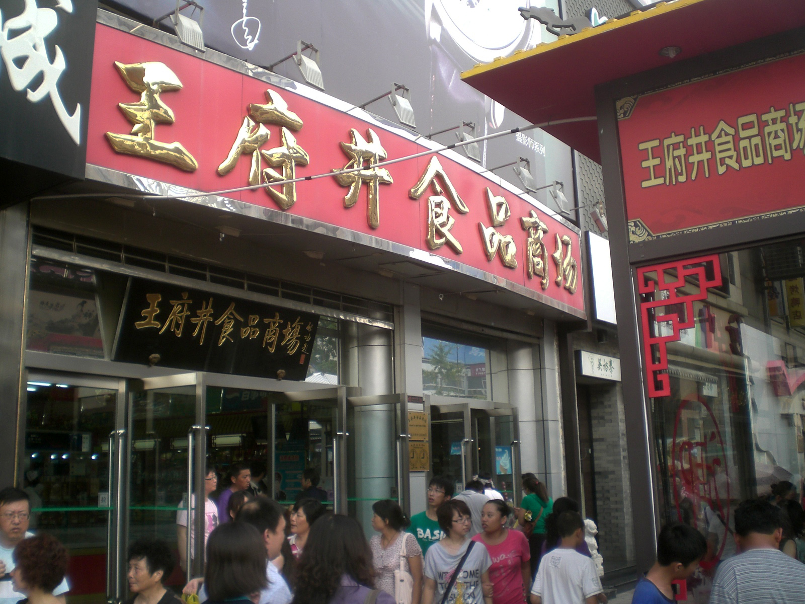 北京市東城區王府井王府井大街 行人專區